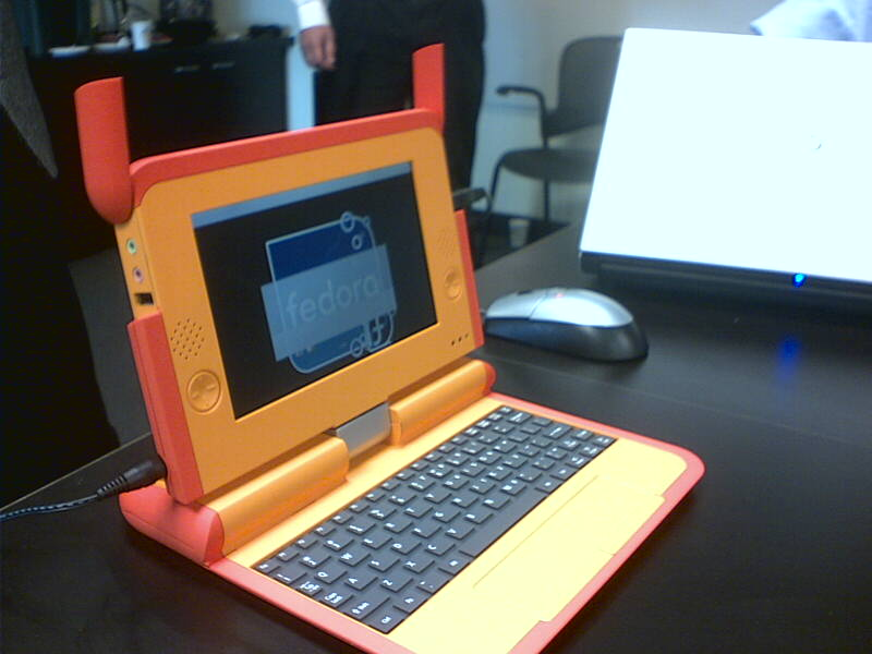 The first working machine of the $100 Laptop is presented at the 7 Countries Task Force Meeting, 23 May 2006.